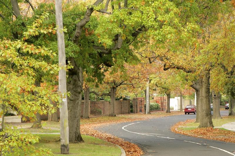 Monomeath Avenue, a notable street in the Melbourne suburb of Canterbury.